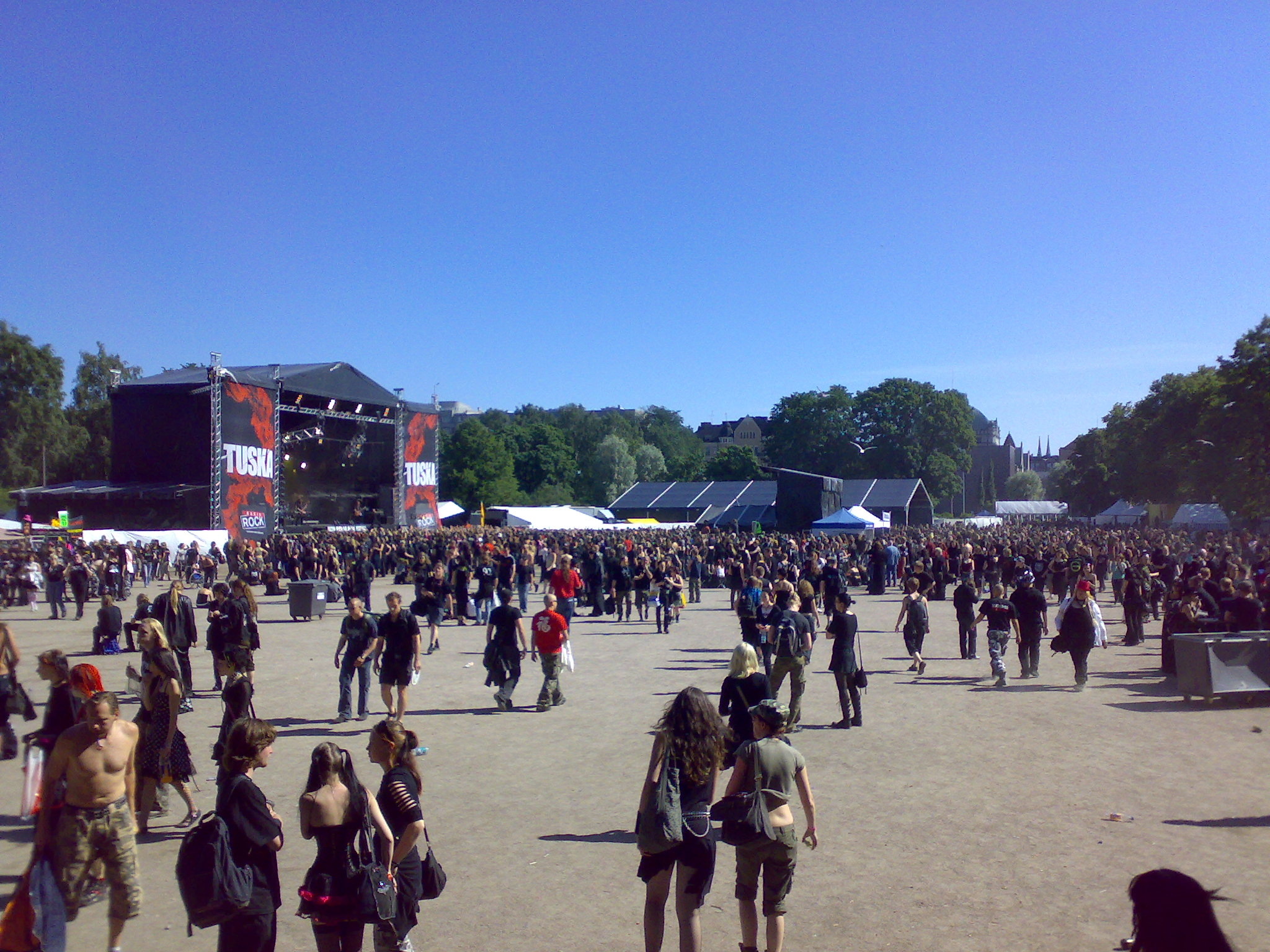 Tuska Open Air Metal Festival 2007 main stage (at the left). Gates can be seen far right, and left to it is Inferno stage. Picture taken on the last day of festival (sunday), so there are not so much crowd as other days.